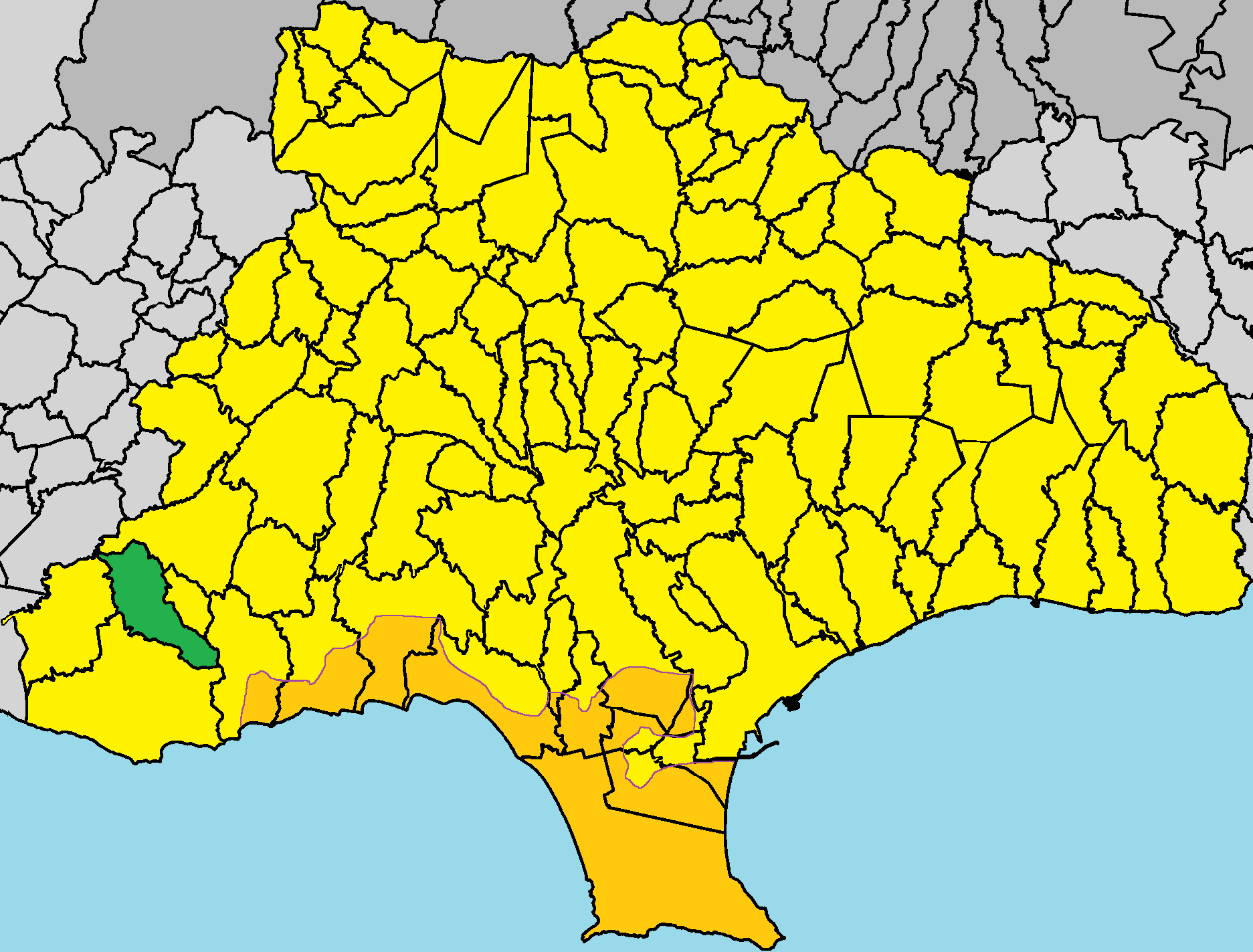 Platanisteia in Limassol District.